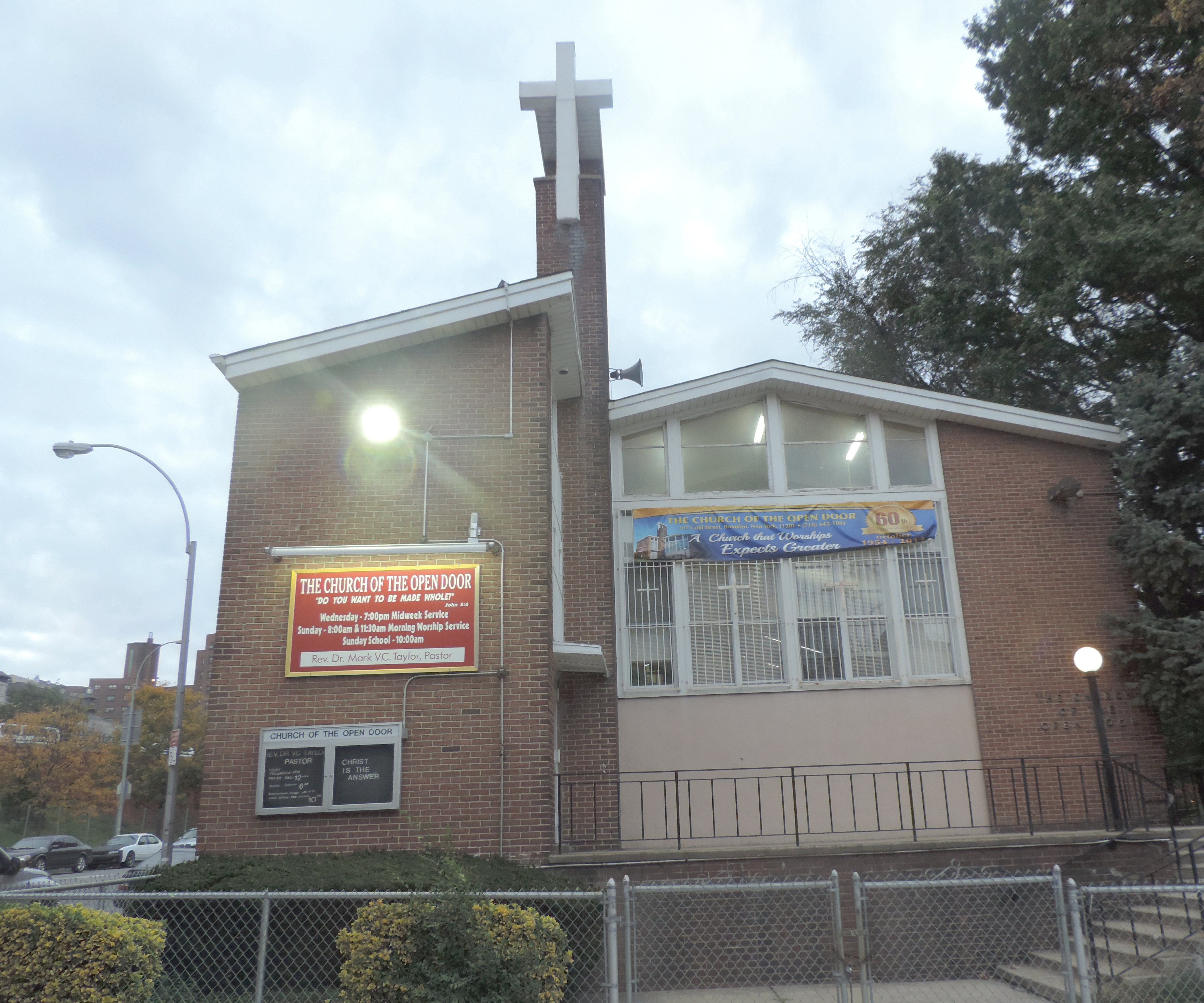 Looking north across Nassau Street at a church.